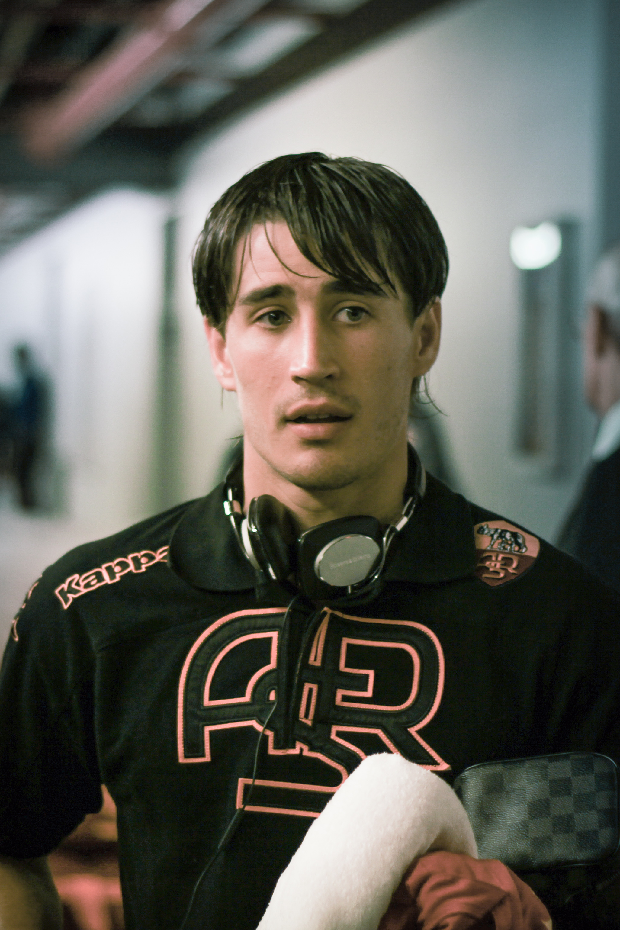 Photo of Bojan Krkic